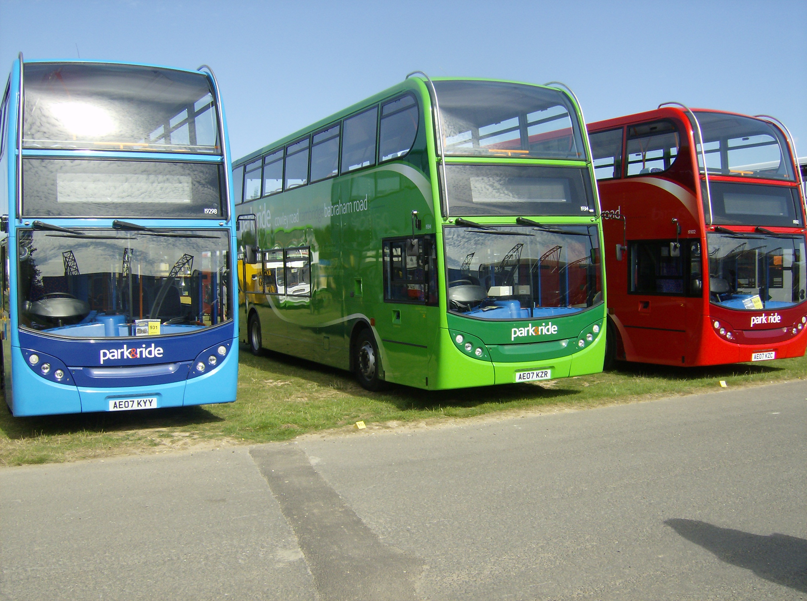 Three Cambridge Park and Ride buses at Showbus 2007